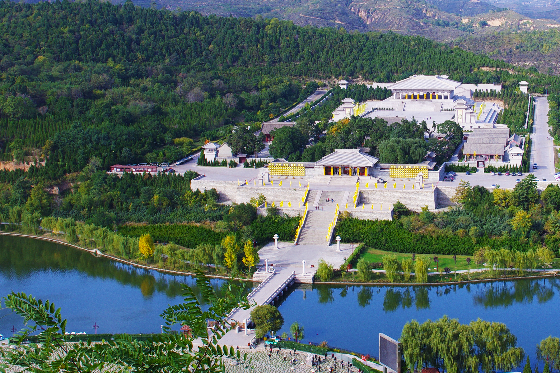 Xuanyuan Temple (轩辕殿) on the grounds of the Yellow Emperor Mausoleum. The temple is dedicated to the worship of Huangdi.